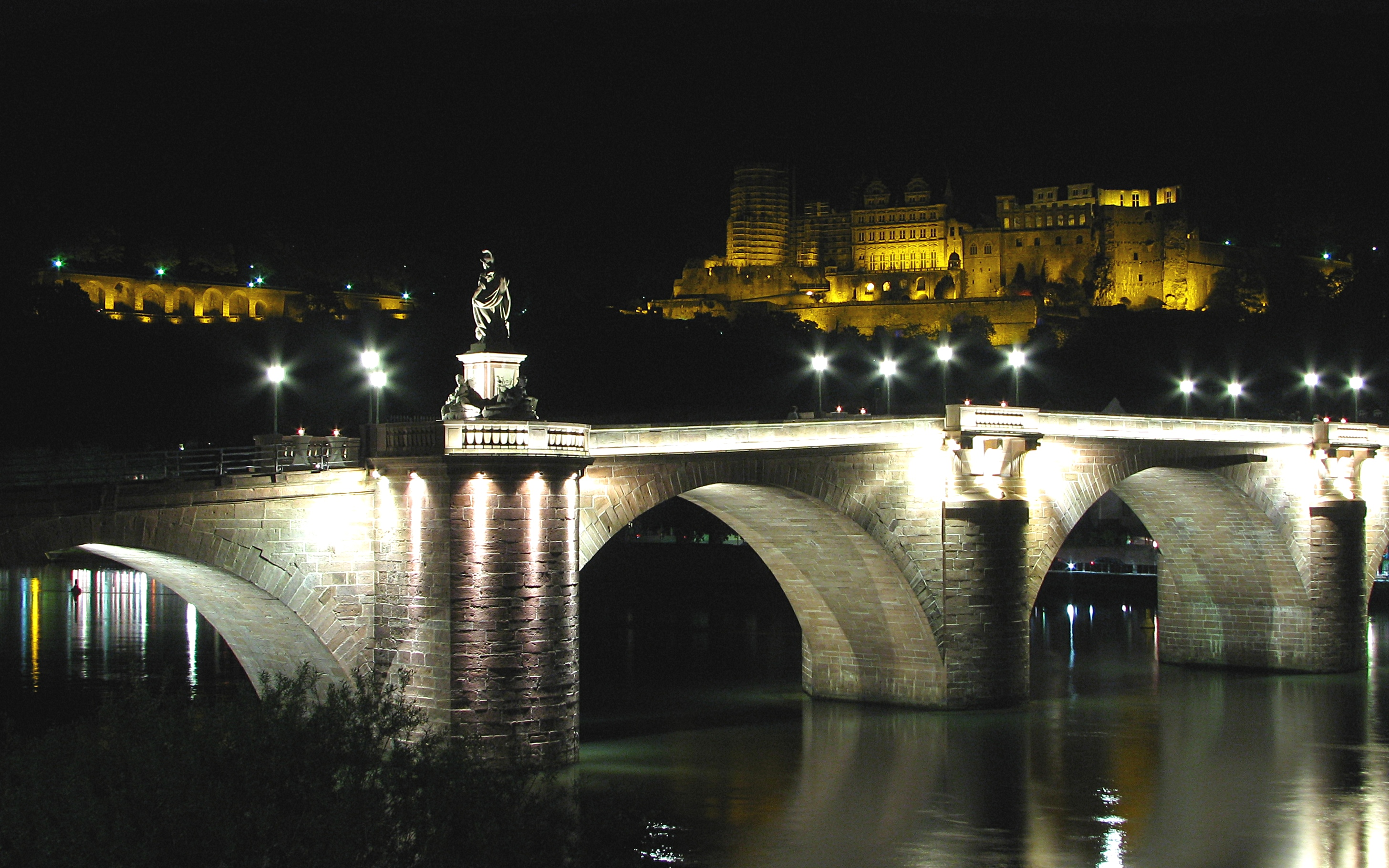 Heidelberg, Germany. Night shot of the Old Bridge (Alte Brücke) and the Heidelberg's Castle.